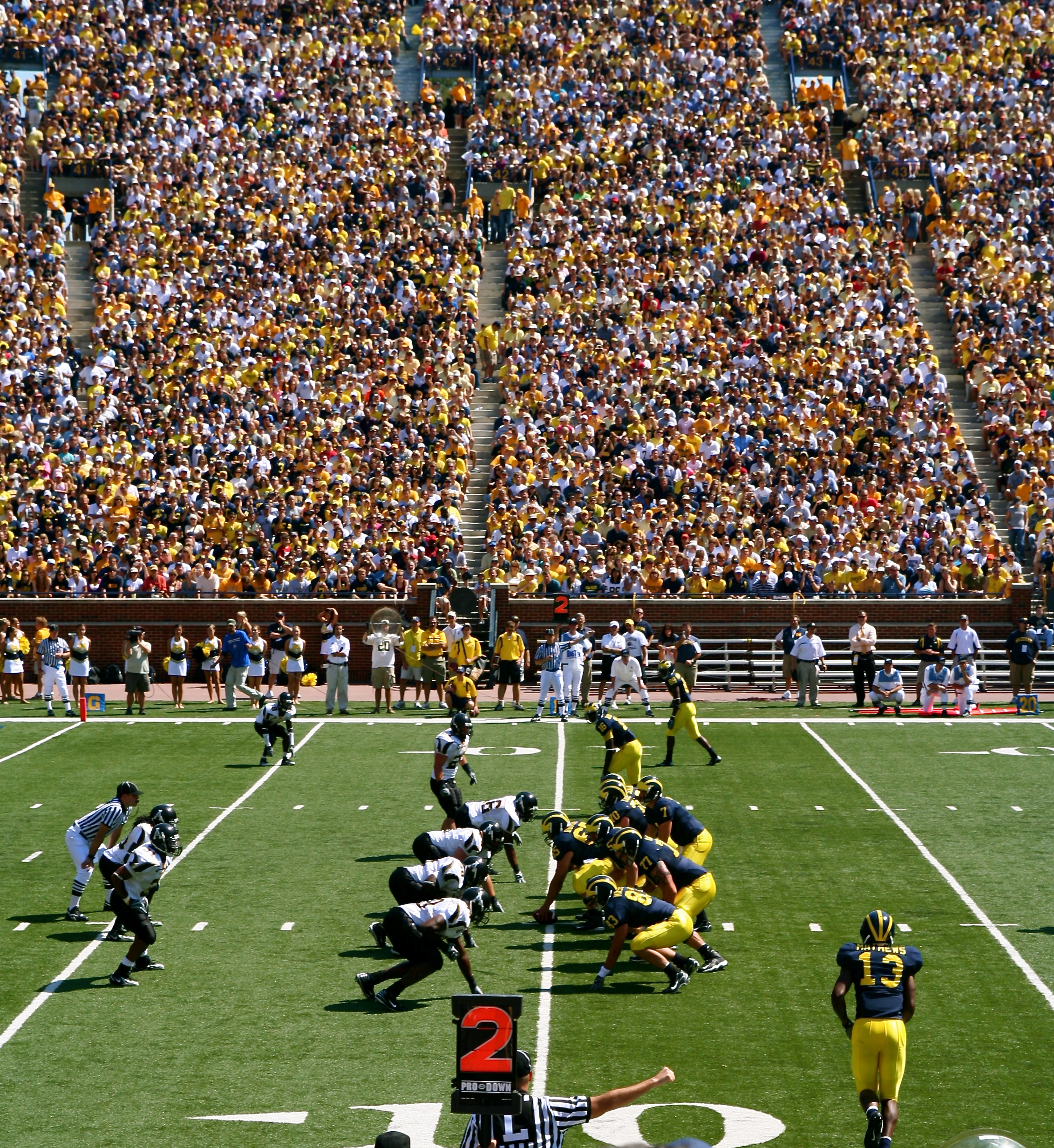 The Appalachian State Mountaineers and Michigan Wolverines huddle during the en:2007 Appalachian State vs. Michigan football game. This game was the biggest upset in the history of college football.